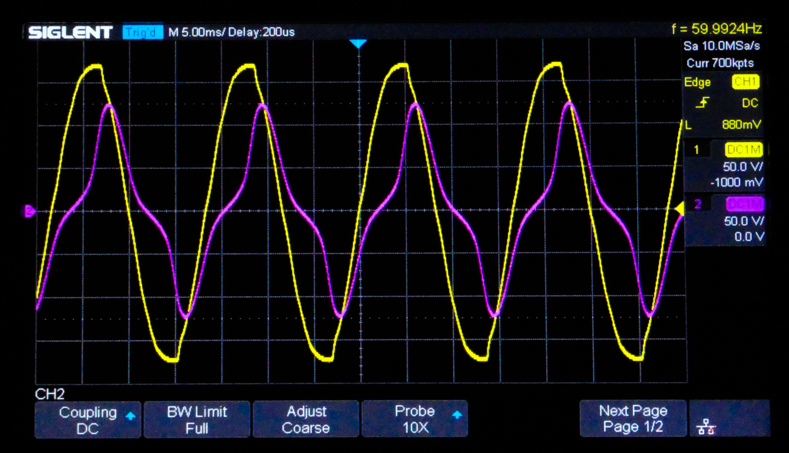 This is the typical magnetic amplifier with source (yellow) of 120 VAC RMS and 60 Hz. Output waveform (violet) is approximately 60 V RMS.